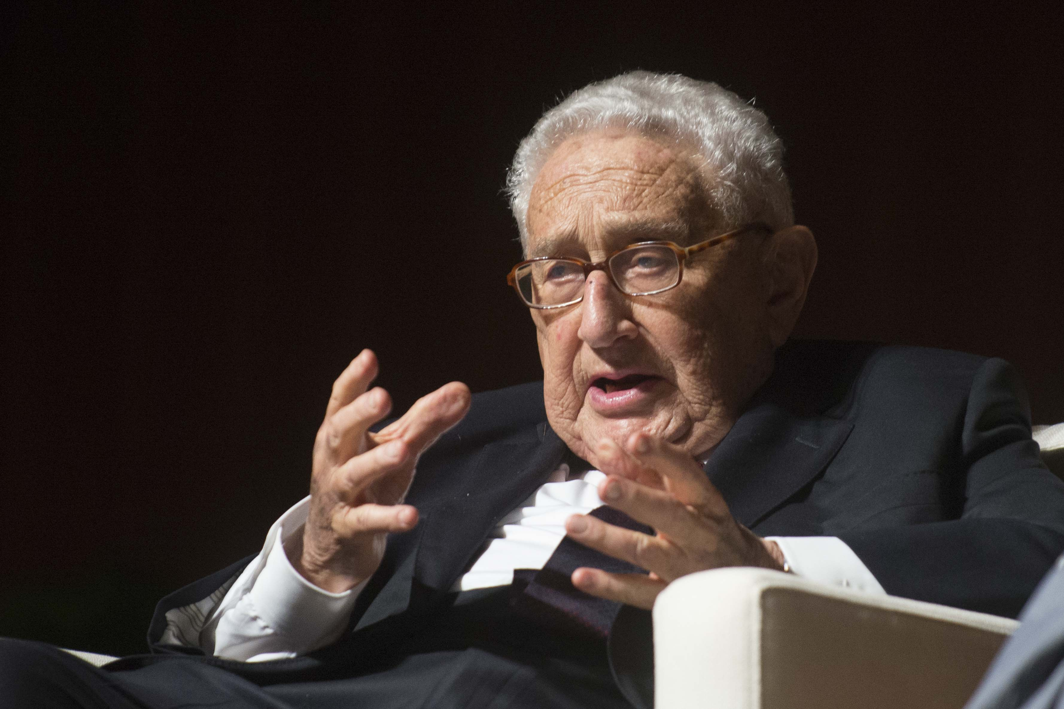 Henry Kissinger, former U.S. Secretary of State and national security advisor for Presidents Richard Nixon and Gerald Ford, discusses the Vietnam War with LBJ Presidential Library director Mark Updegrove on Tuesday, April 26, 2016. Kissinger, who played a leading role in U.S. diplomatic and military policy during the Vietnam War, was the keynote evening speaker on the first day of the LBJ Presidential Library’s three-day Vietnam War Summit.